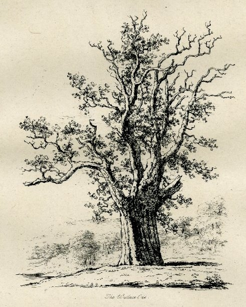 The Wallace Oak by JG Strutt (died 1867). From Sylva Britannica c. 1851